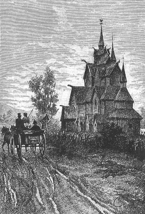 An illustration from the novel "The Lottery Ticket" by Jules Verne drawn by George Roux. It was also published in USA under the title Ticket No. "9672".